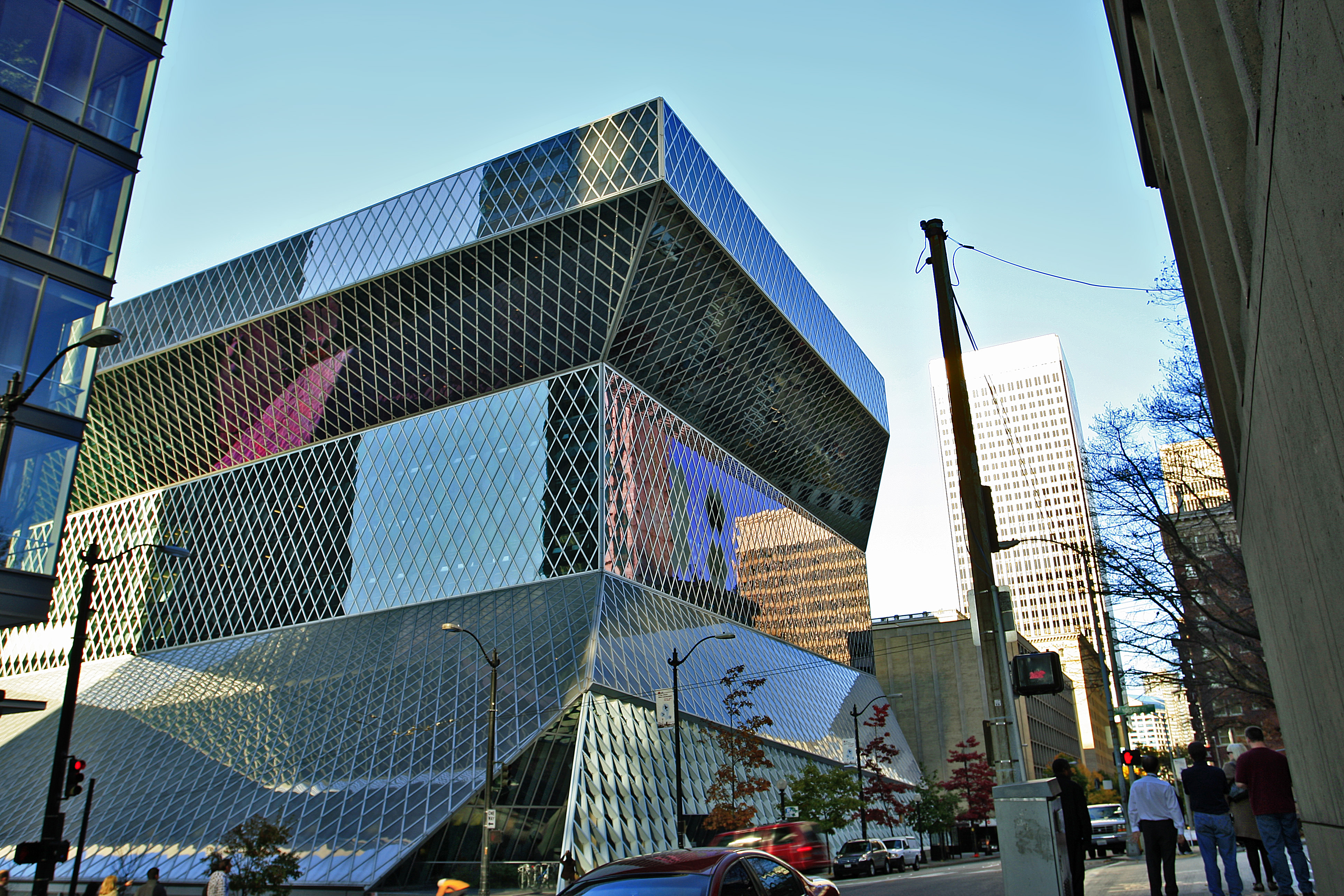 Seattle Central Library